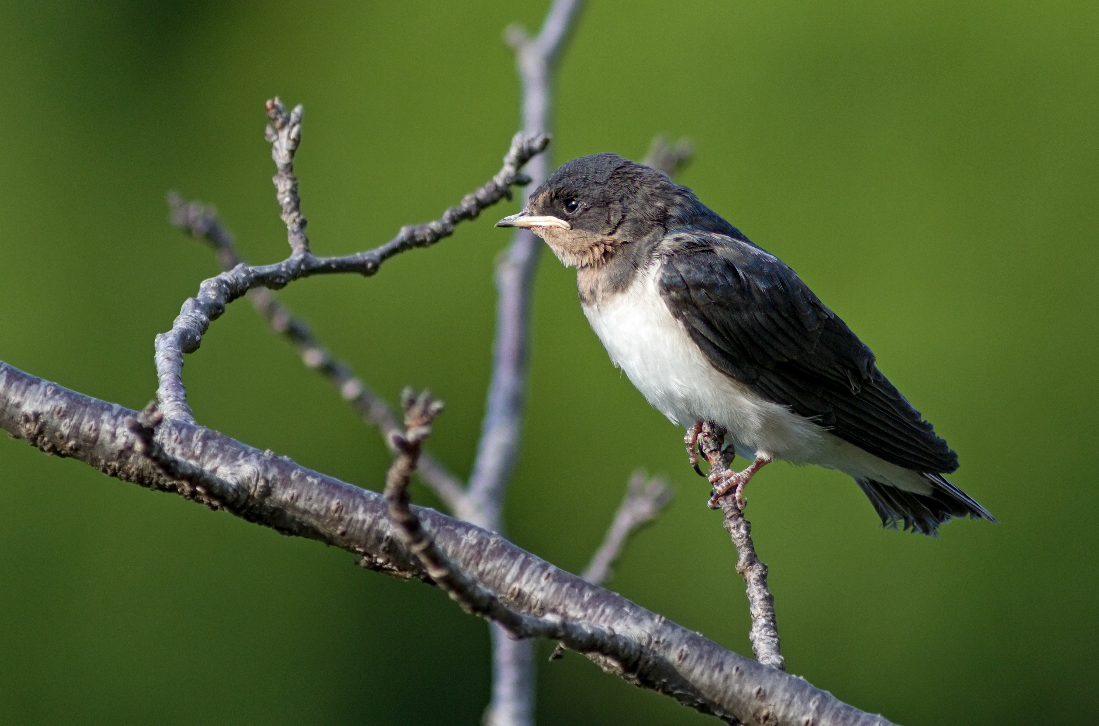 Barn swallow(juvenile) at Tennōji Park in Osaka.